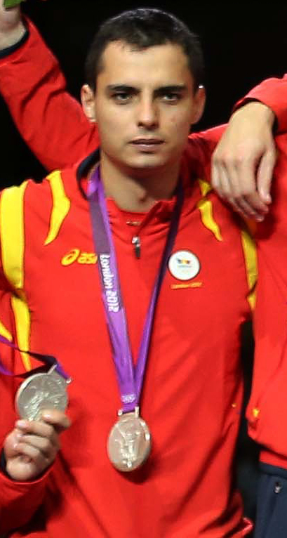 2012 London Olympic Games Korea won the gold medal men's team Saber fenching. Gu Bongil, Kim Junghwan, Won Woo-young and Oh Eunseok 2012. 08. 05. hoto by Korean Olympic Committee Ministry of Culture, Sports and Tourism Korean Culture and Information Service 2012 런던 올림픽 한국 남자 사브르 단체전 금메달 획득 구본길, 김정환, 원우영, 오은석 사진제공 - 대한체육회 문화체육관광부 해외문화홍보원